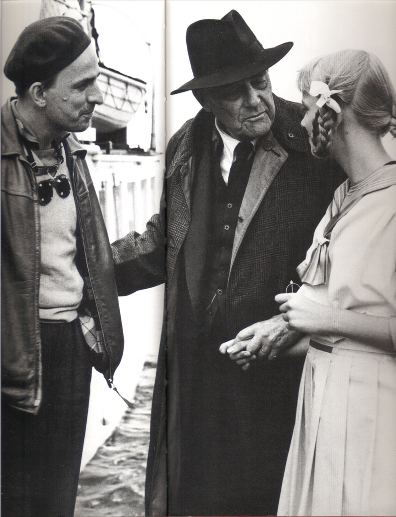 Director Ingmar Bergman (left) and actor Victor Sjöström speaks with Bergman's daughter Lena during production of Bergman's 1957 movie Wild Strawberries at Filmstaden in Råsunda outside Stockholm. Photo courtesy of Pressens Bild, 1957. Swedish press photos more than 50 years old are public domain.